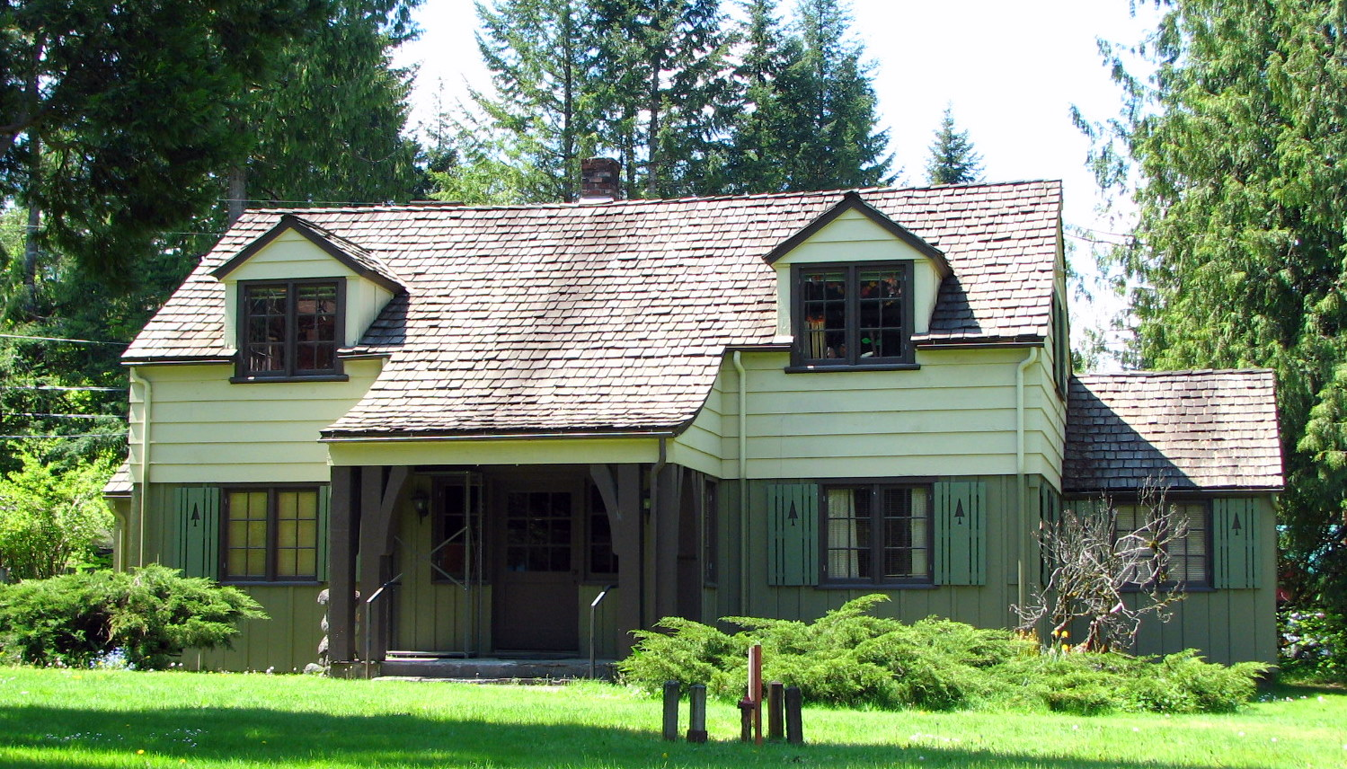 Timber Office of the historic Zigzag Ranger Station (built 1917), located at 70220 East Highway 26 in Zigzag, Oregon, United States, is listed on the US National Register of Historic Places (NRHP).